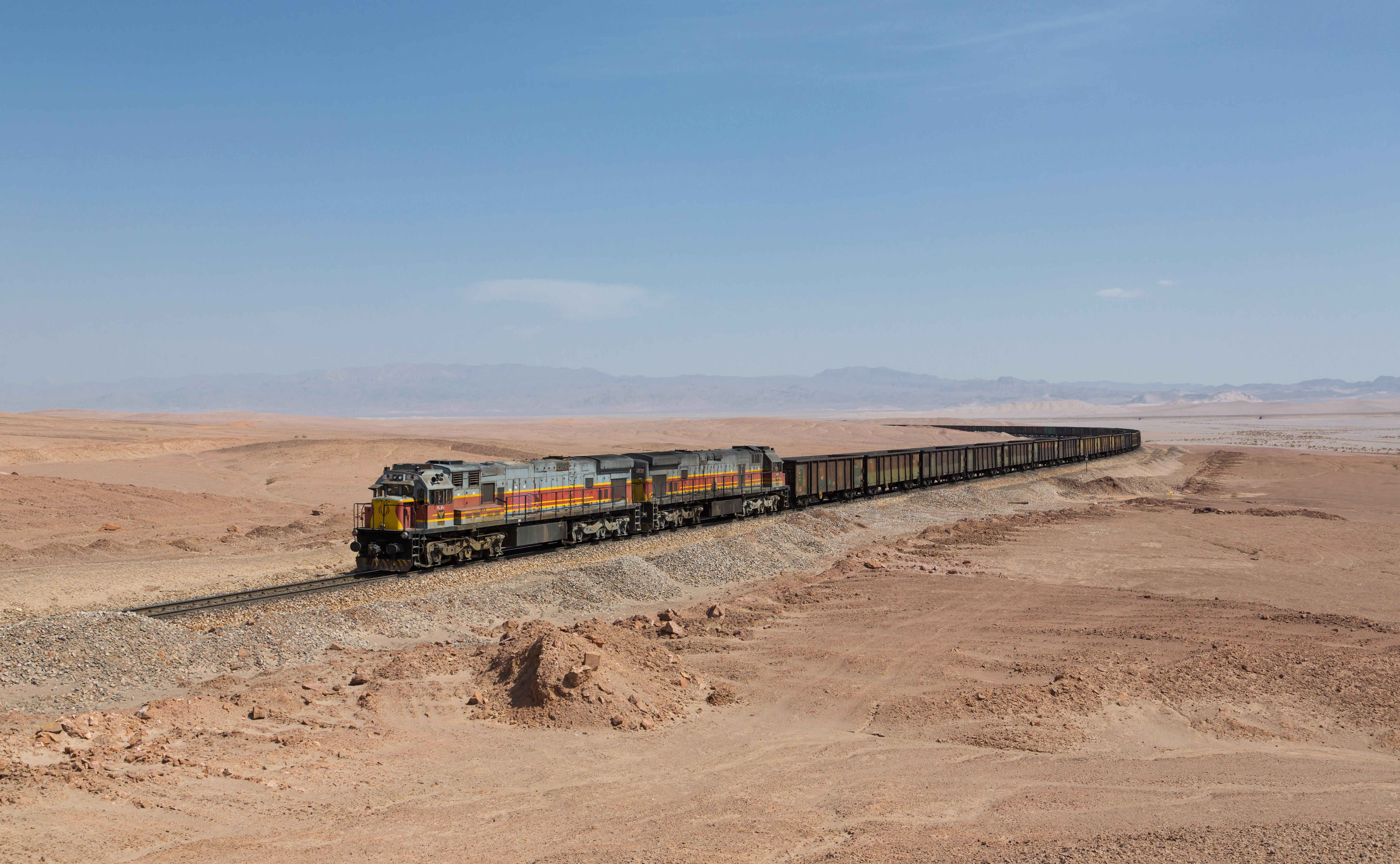 60-2060 (GE U30C) of Islamic Republic of Iran Railways and a sister unit haul a loaded iron ore train between Bafq and Yazd, Iran